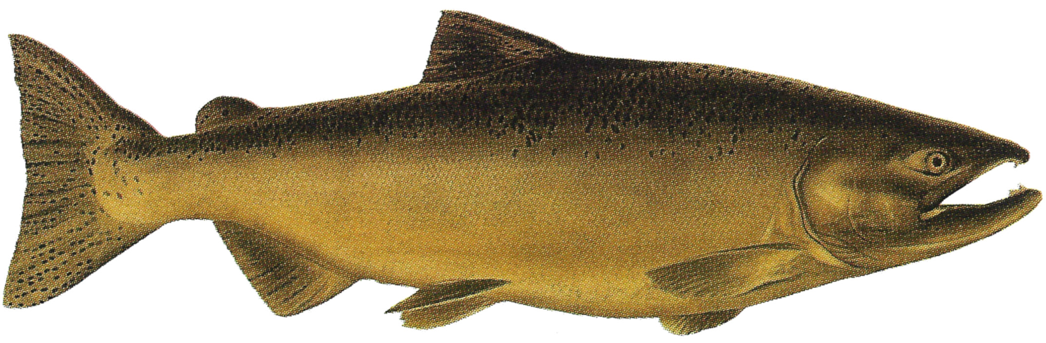 Drawing of male freshwater phase Chinook (king) salmon (Oncorhynchus tshawytscha) from a pamphlet about the Lake Washington Ship Canal Fish Ladder at the Hiram M. Chittenden Locks, Seattle, Washington, scanned at 600 dpi and cleaned up.